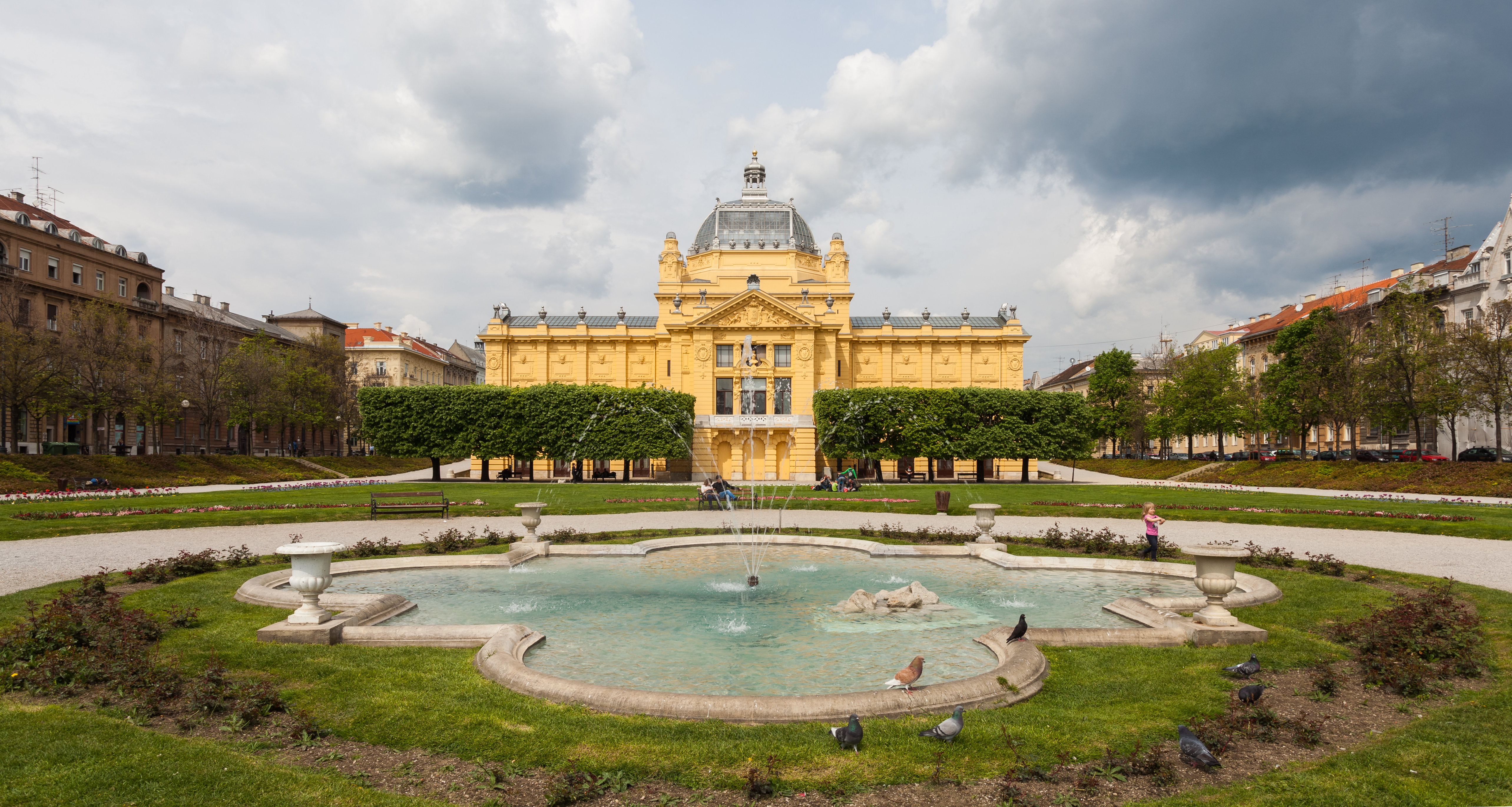 Art Pavillon, Zagreb, Croatia